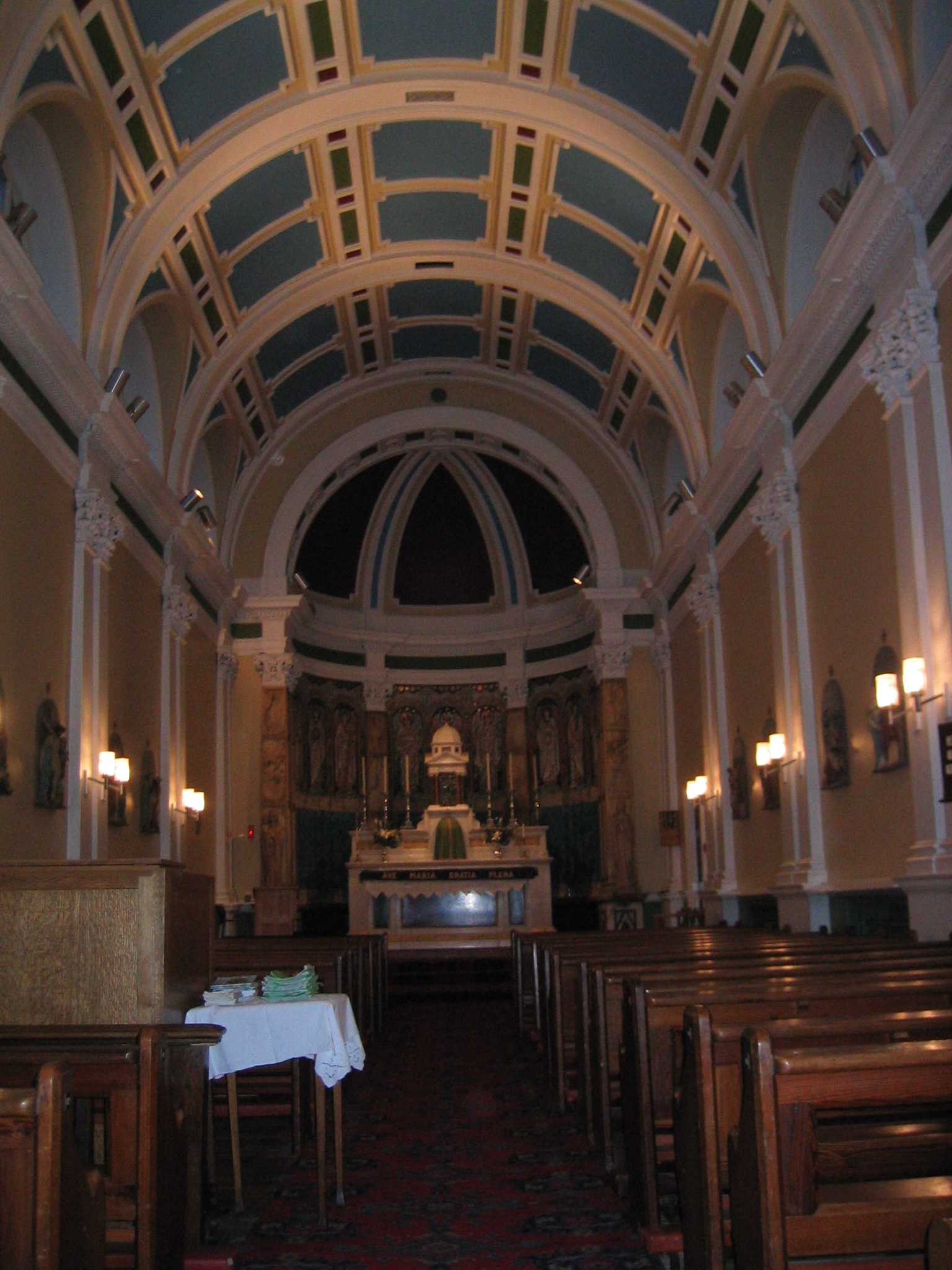 Chapel, SMH, Stonyhurst